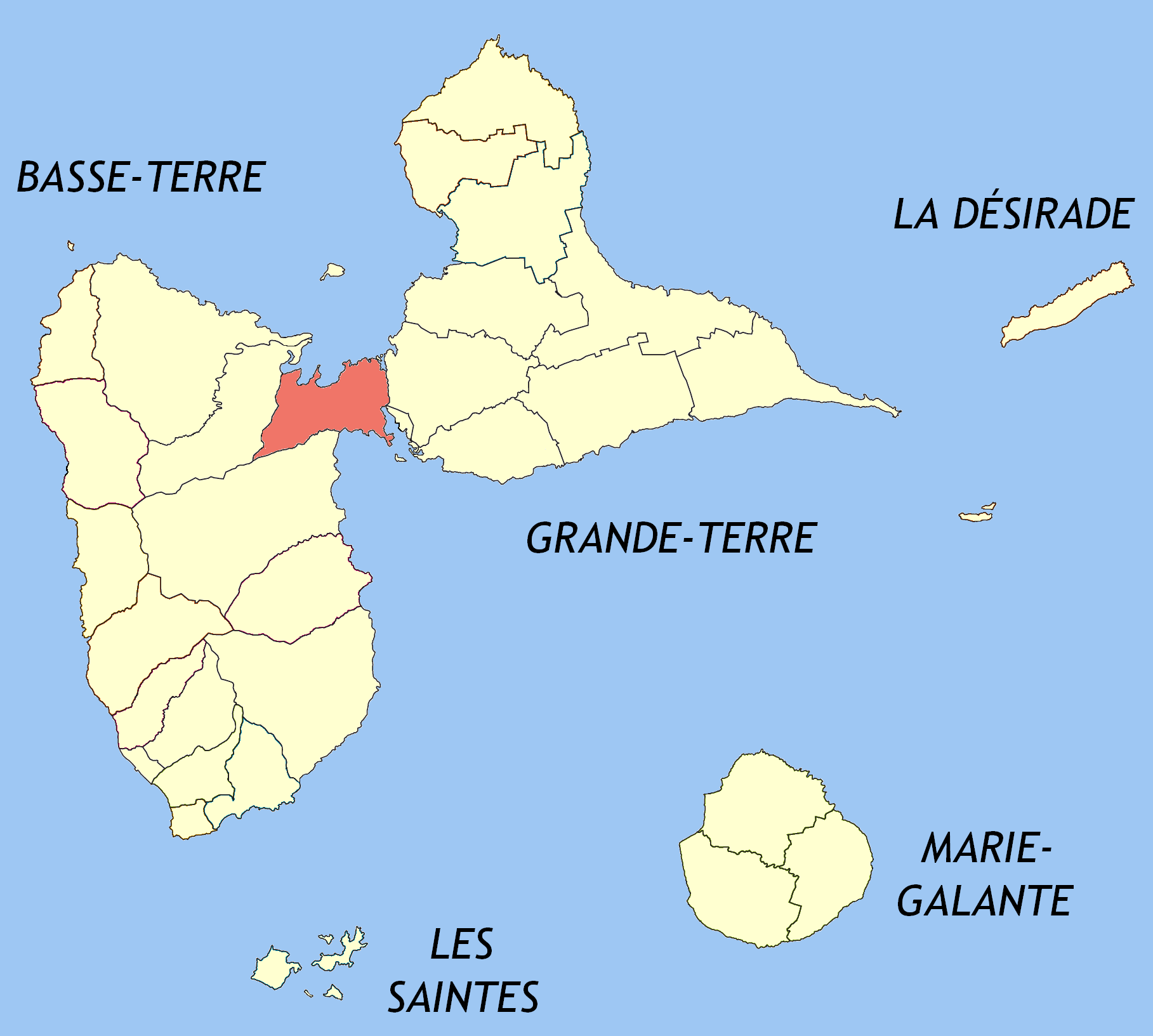 Created map myself.